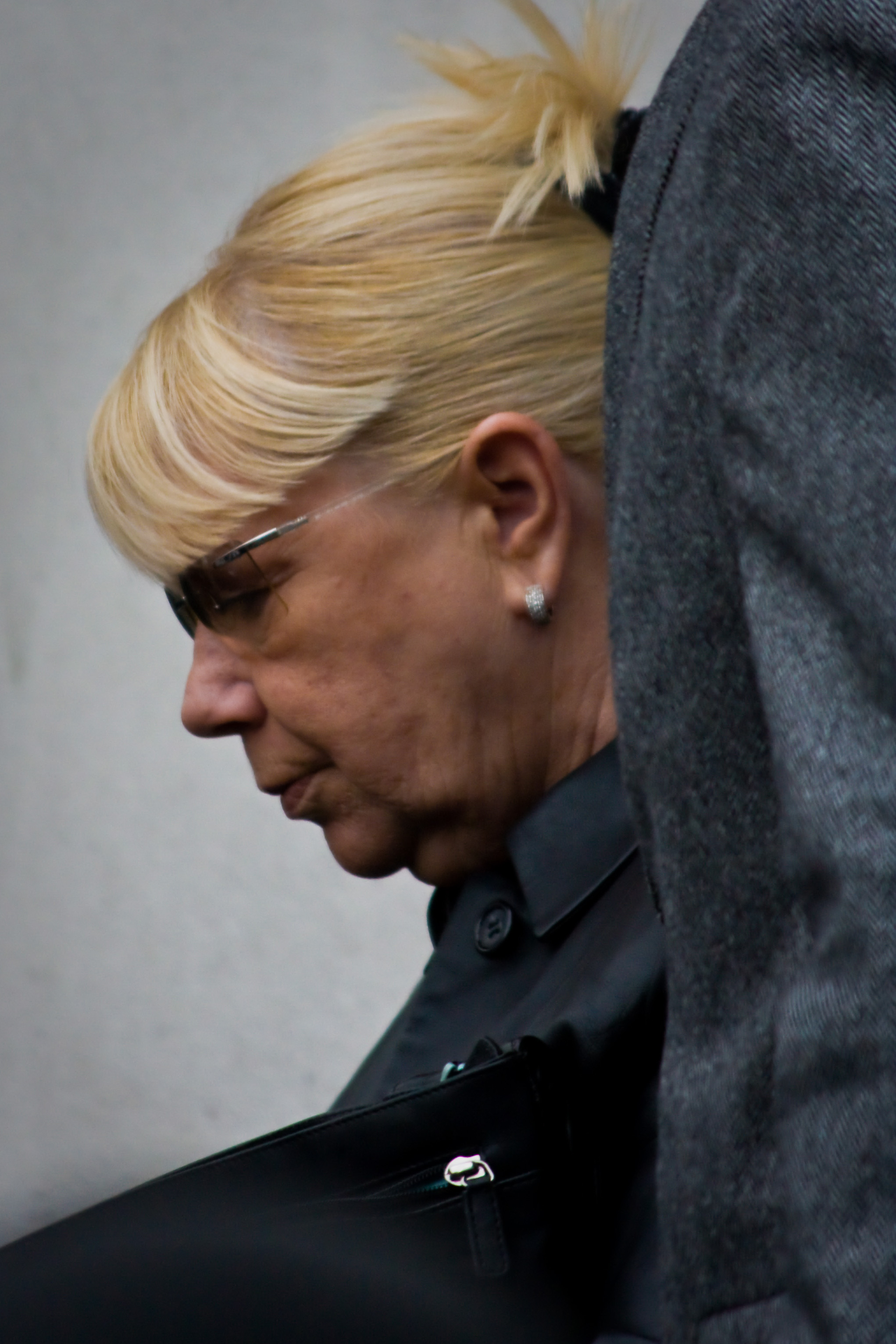 Laila Morse at the funeral service for actress Wendy Richard at St Marylebone Parish Church.